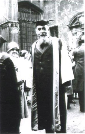 Iorga receiving the Honoris Causa degree from the Oxford University.